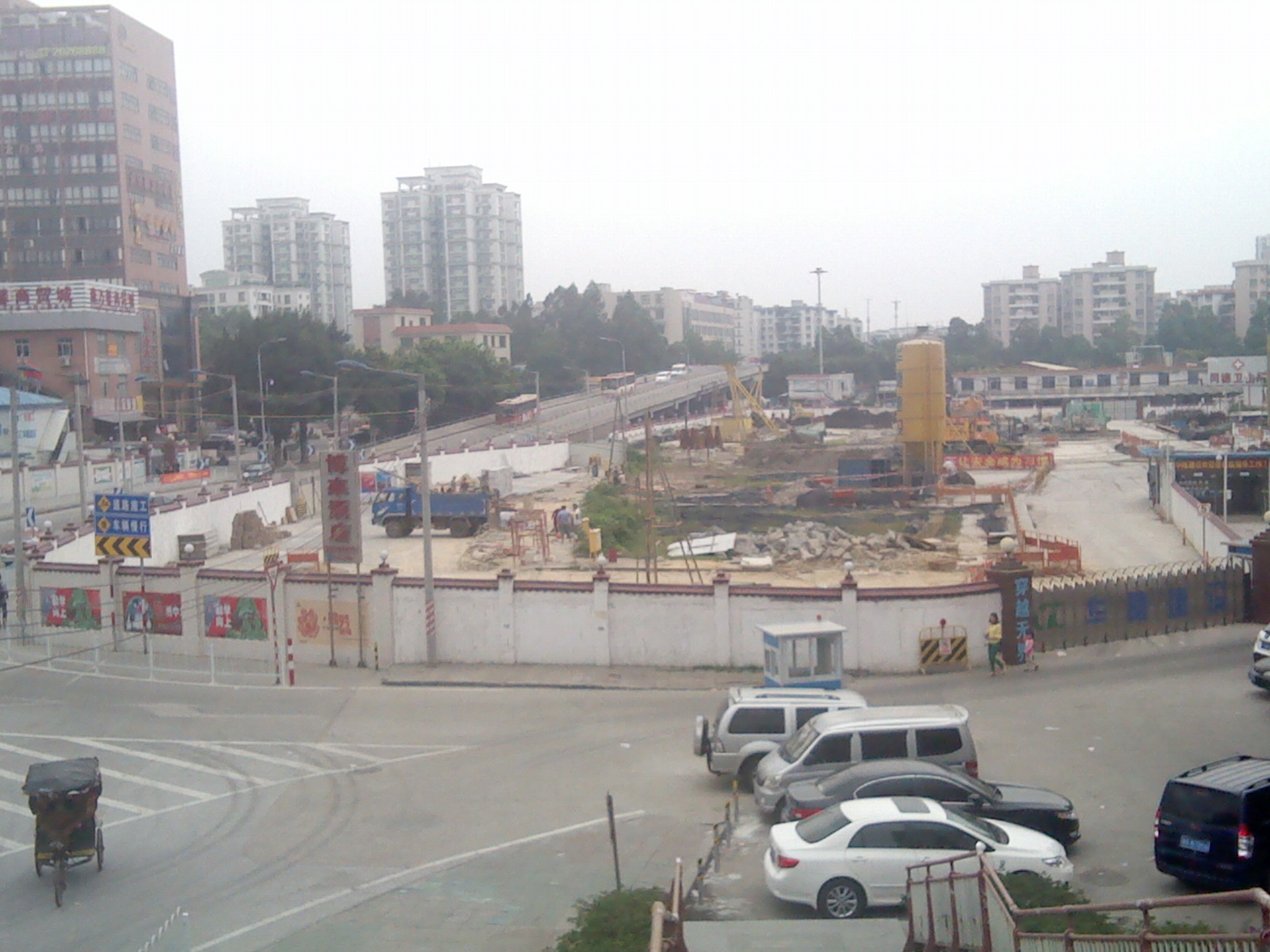 同德围站施工工地（2015年4月）